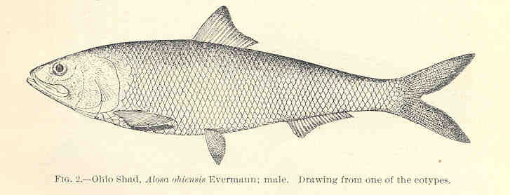 Ohio Shad Alosa ohiensis Evermann; male Subject: Shad Tag: Fish